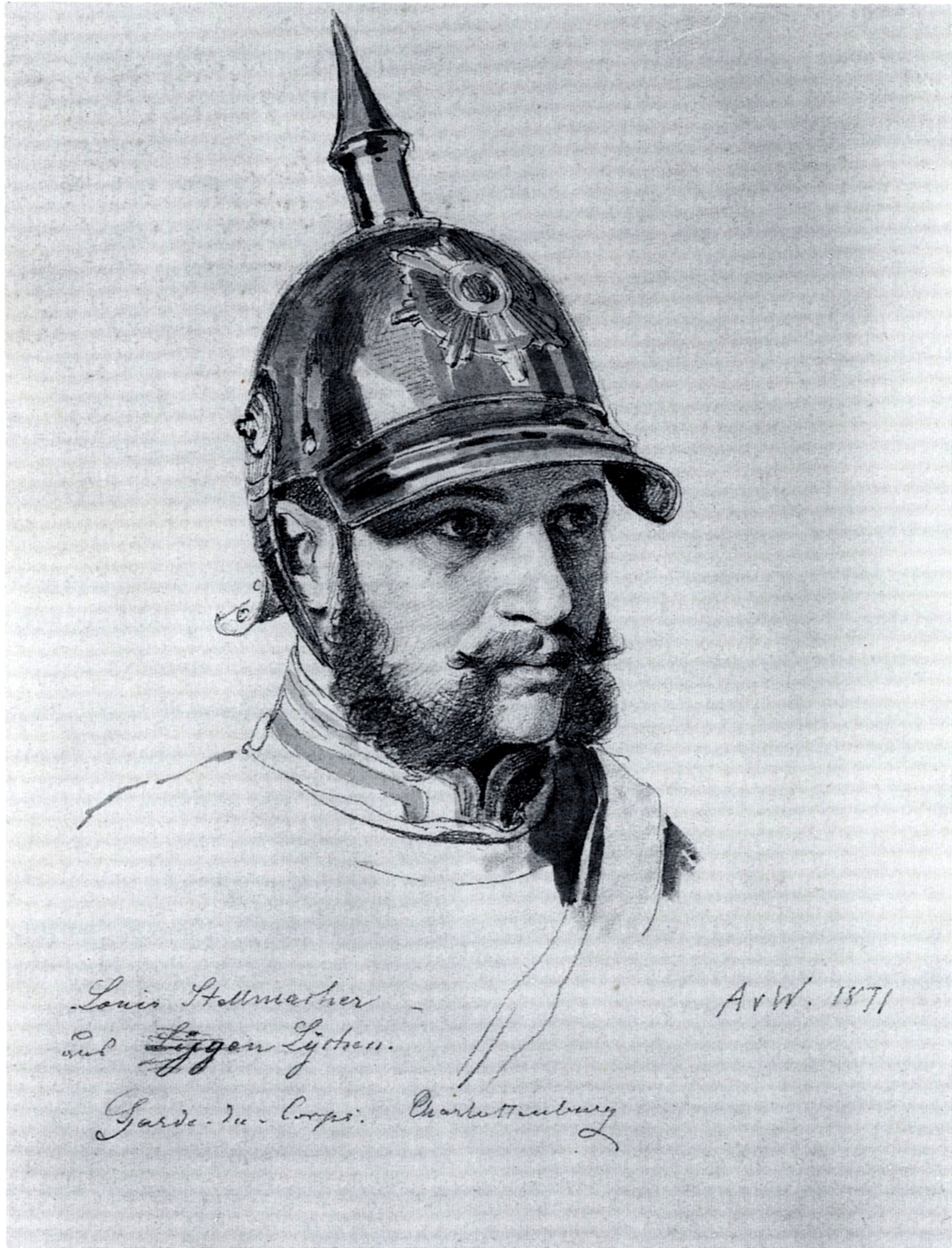 Drawing: Louis Stellmacher, Garde du Corps artist: Anton von Werner, year: 1871, dimensions: 30,4 × 23,7 cm, method: pencil / water colour, depository: Berlin, collection: Kupferstichkabinett, era: Realism, country: Germany)